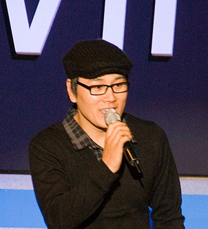 Byun Gi-soo at Microsoft Windows 7 launching event on Melon-AX (Uniqlo-AX in 2013), Gwangjin-gu, Seoul, October 2009